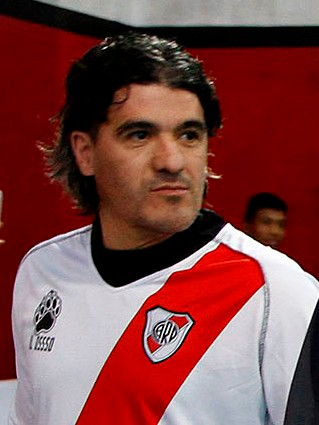 Ariel Ortega, cropped file